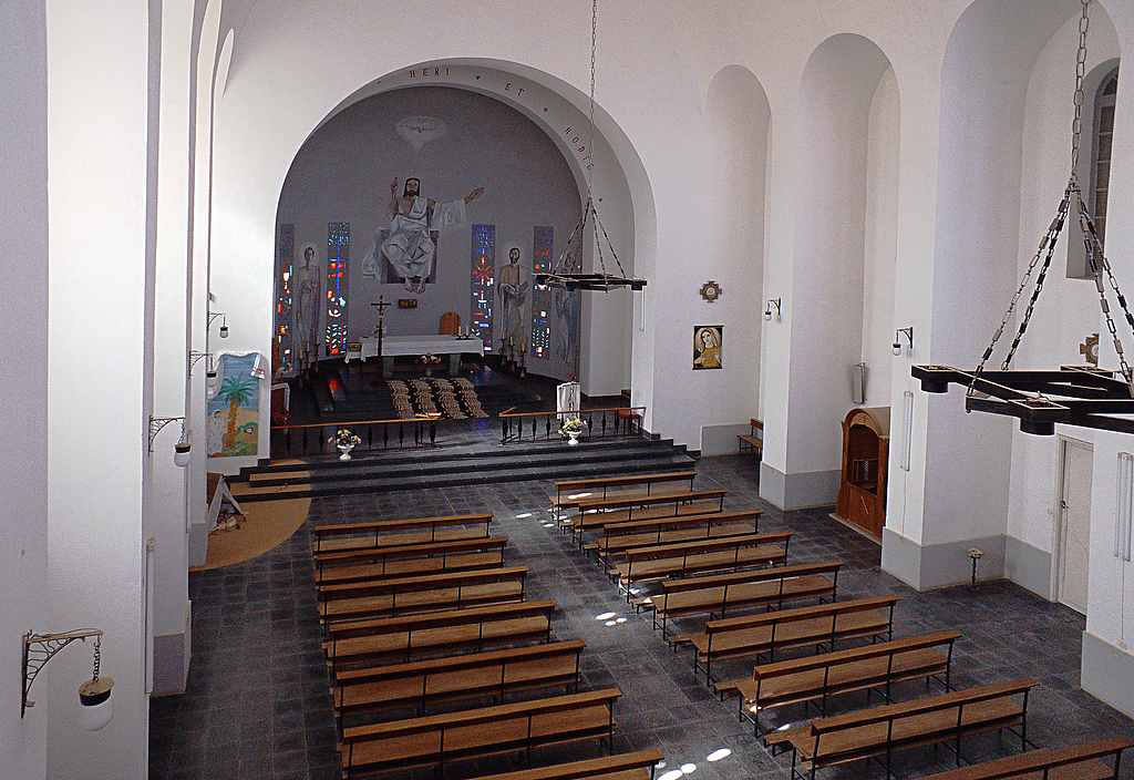 Interior of; Saint Francis of Assisi Cathedral, El Aaiun, Western Sahara